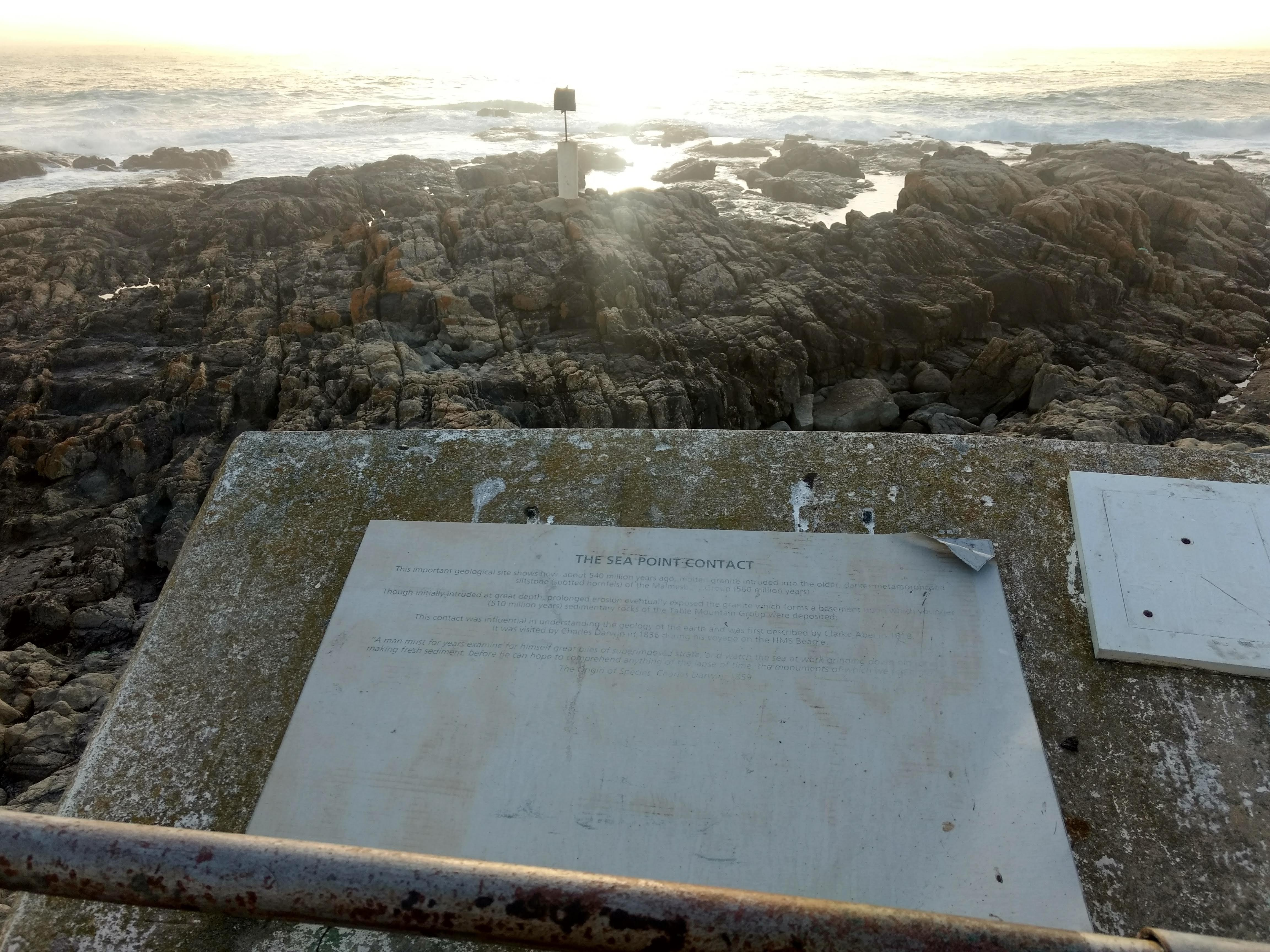 Memorial to Darwin, Sea Point